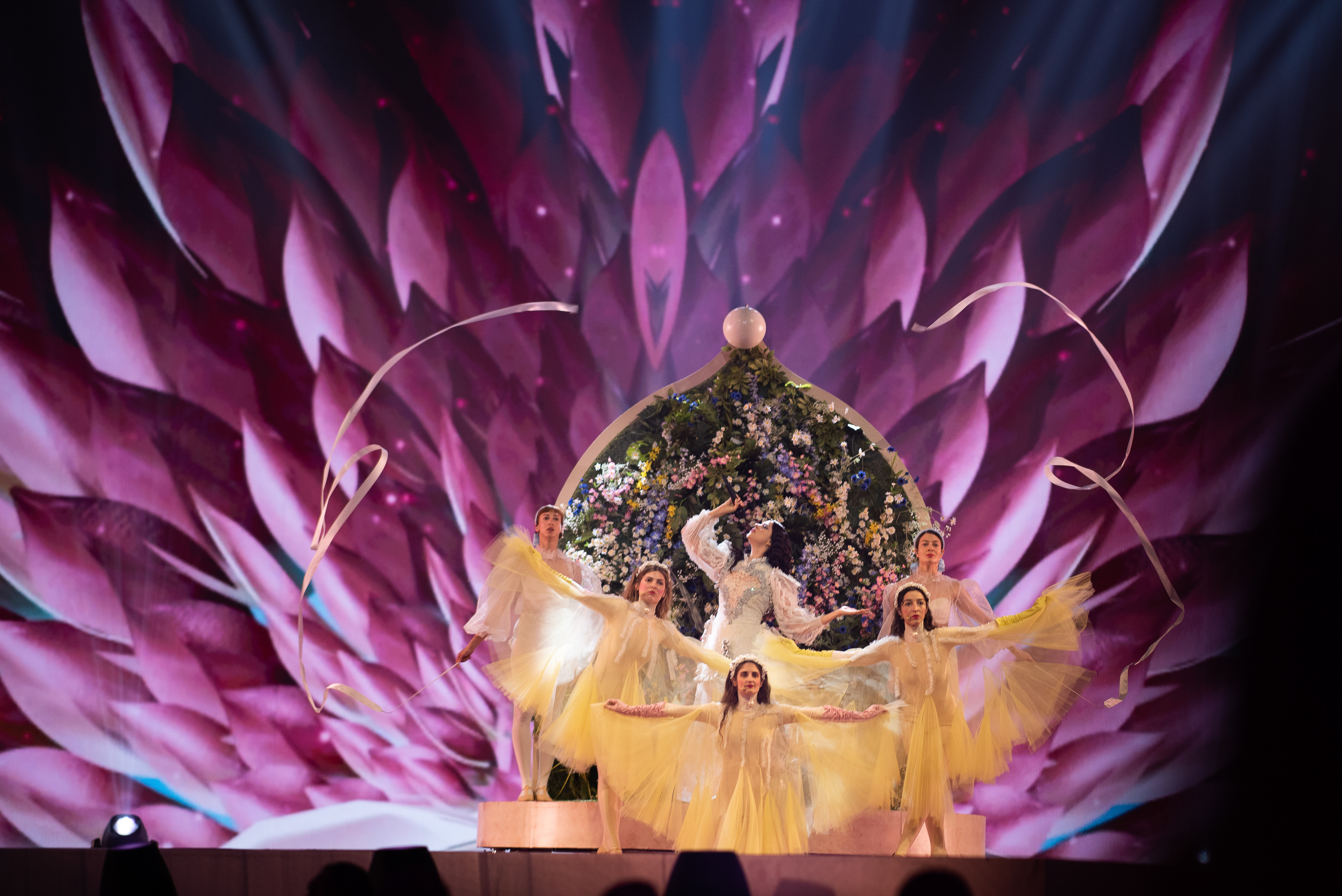 Katerine Duska at the 2019 Eurovision Song Contest Grand Final Dress Rehearsal